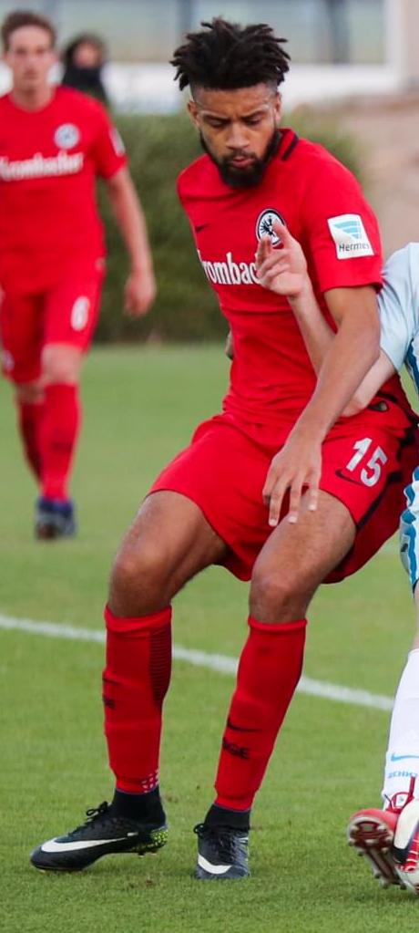 Michael Hector